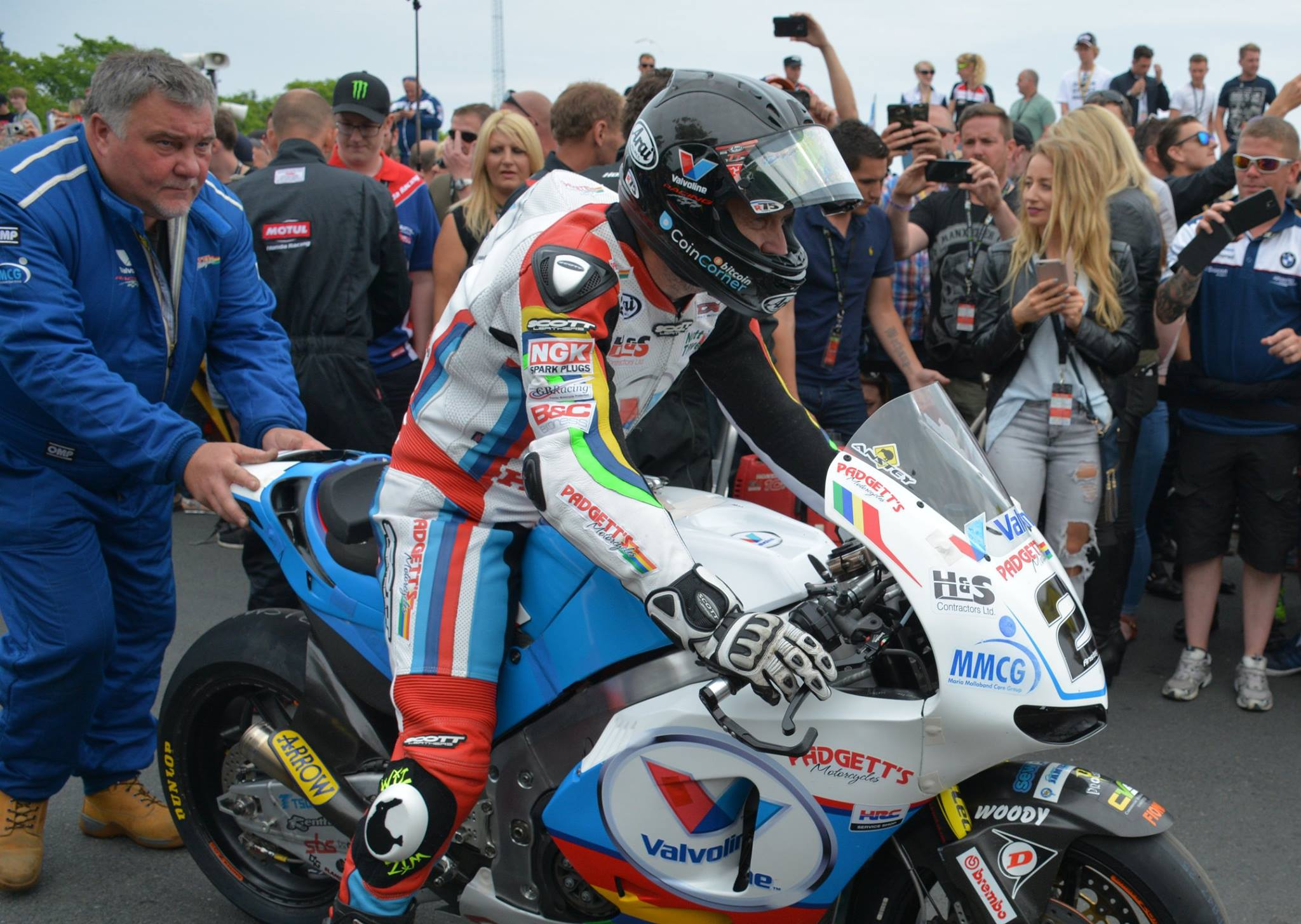 Bruce Anstey prepares to start the 2016 Senior TT